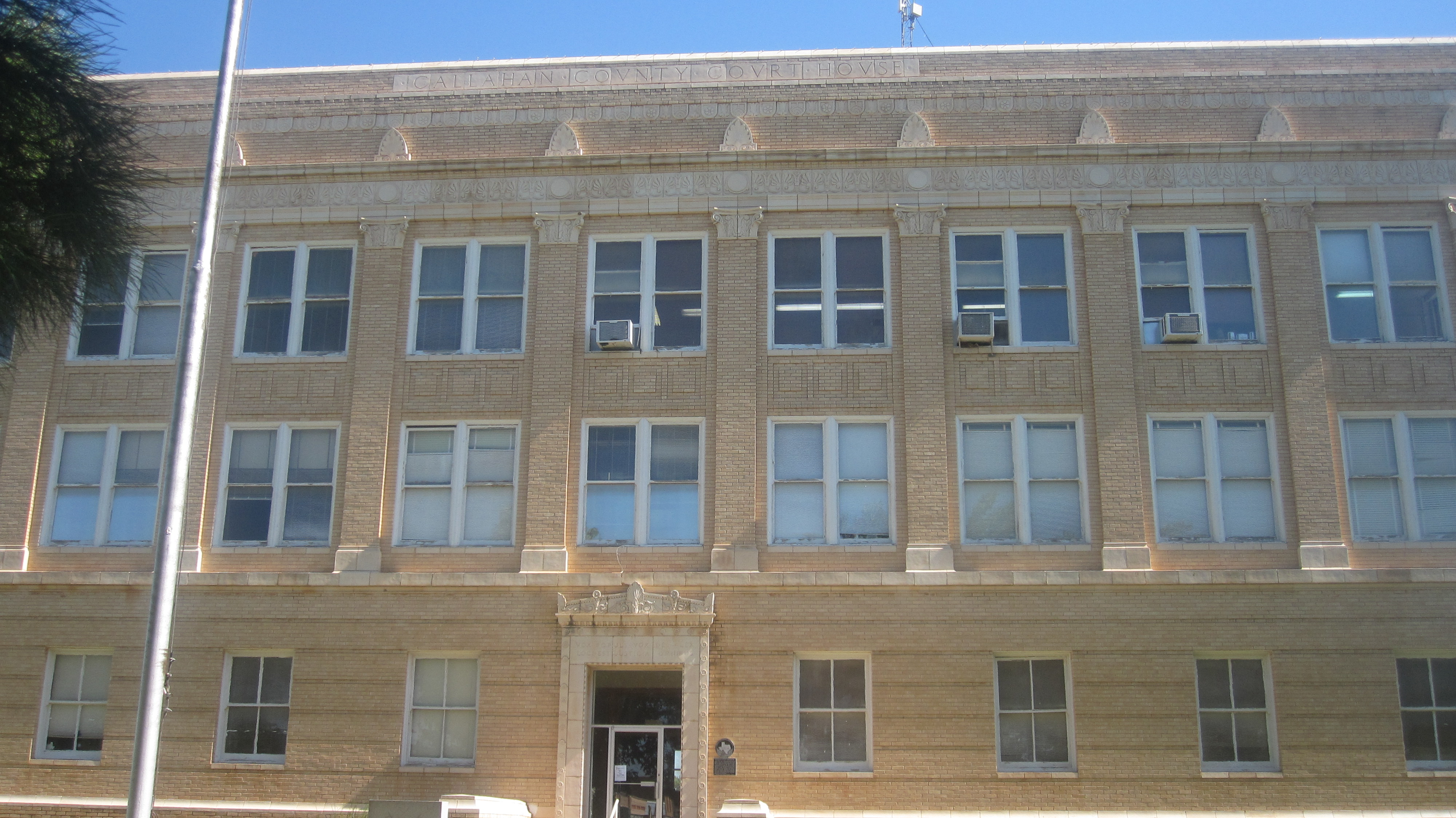 Callahan County, Texas Courthouse. I took photo with Canon camera in Baird, TX.